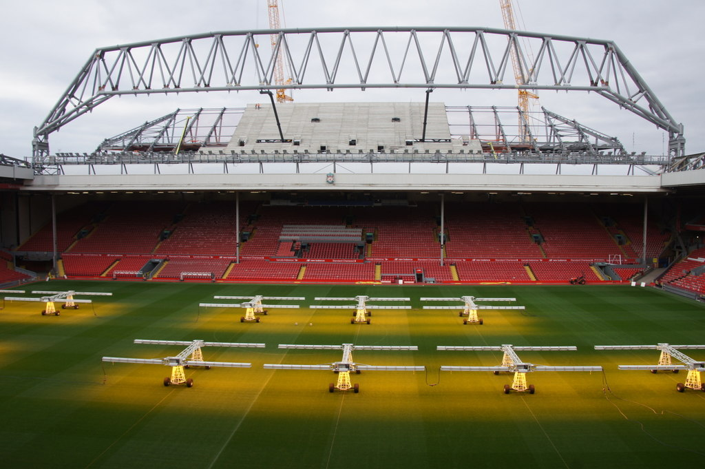 The Main Stand from the Centenary Stand, Anfield